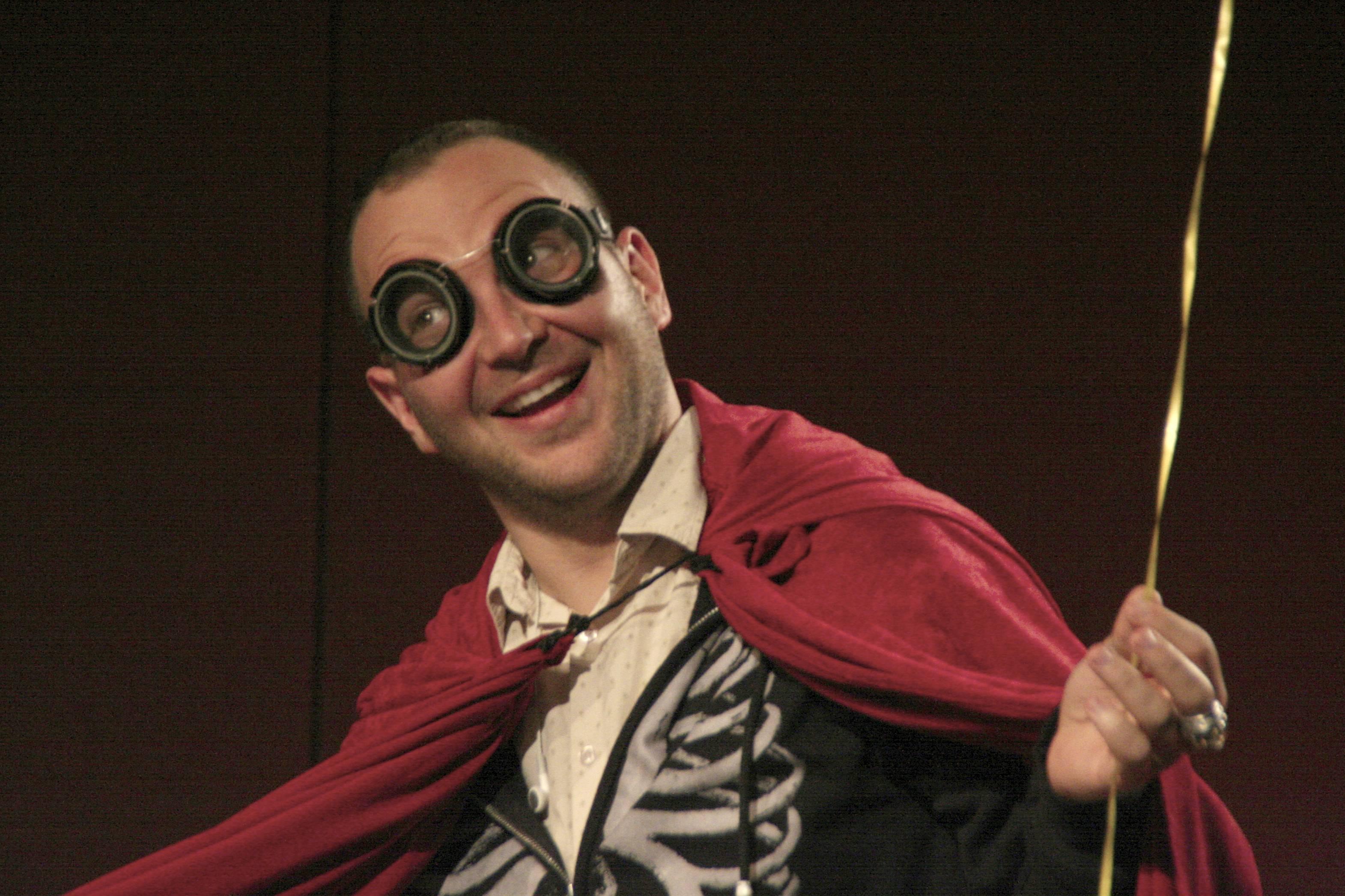 EFF says Cory is a superhero and they mean it; providing a cape, goggles and a balloon. Standard fare for a super hero in the EFF. Update: yea - flickr comes to the rescue with the link to [1] from chesh2000 in the comments. Thanks!